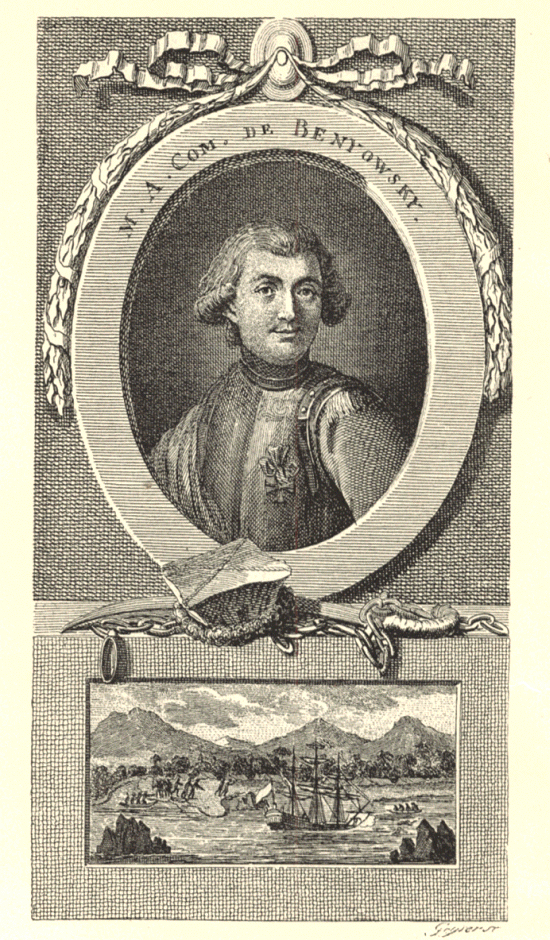 18th century engraving of Maurice Benyovszky.